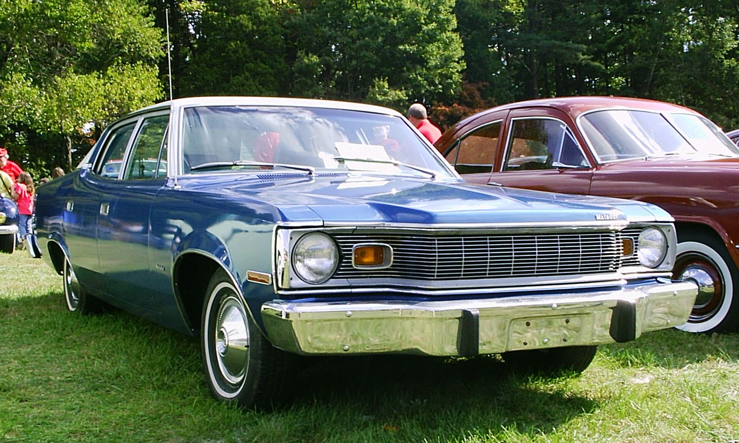 1975 Matador four-door sedan - built by American Motors Corporation. This is a base model a with factory two-tone finish (blue with white top)